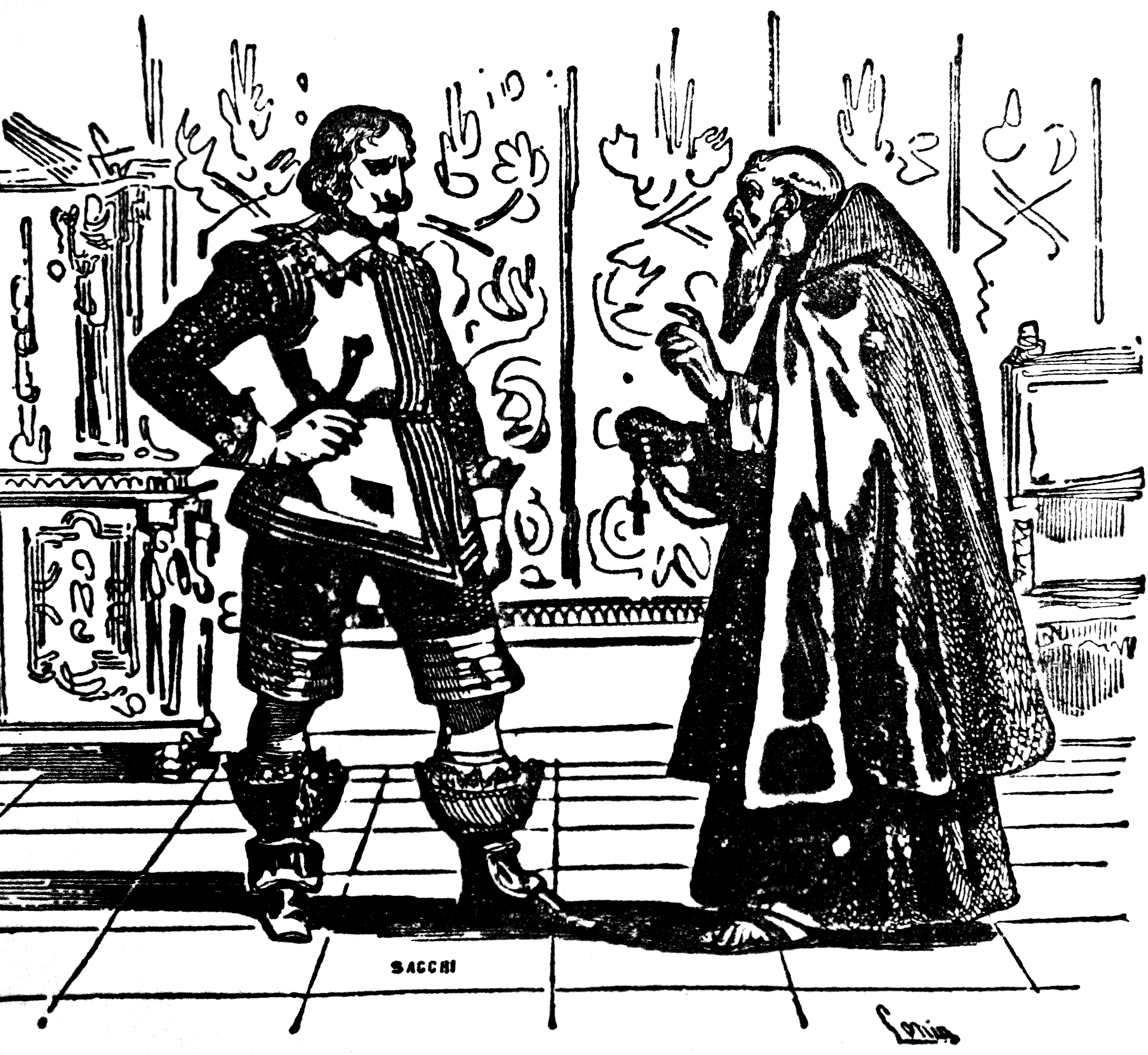 Picture from "I promessi sposi" of the meeting between frate Cristoforo and don Rodrigo